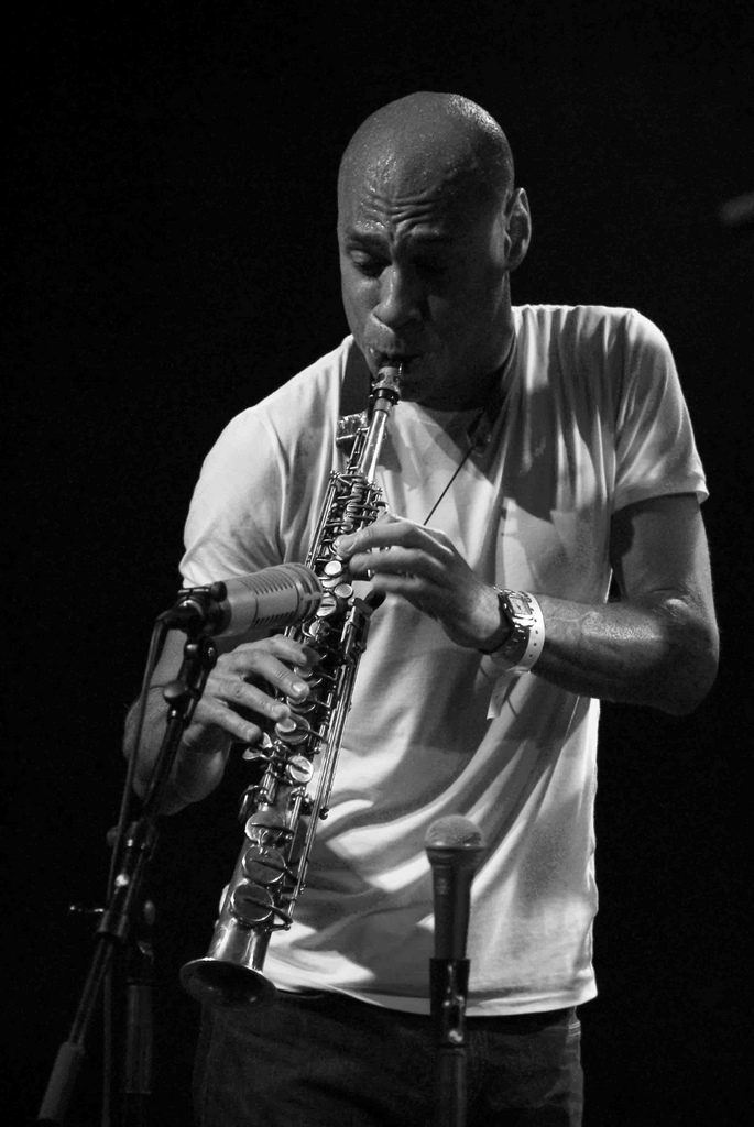 Joshua Redman, Northsea Jazz Festival 2007